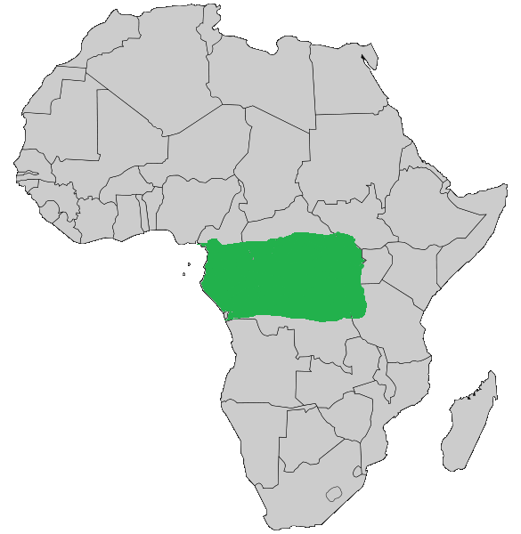 Distribution of the banded water cobra (Boulengerina annulata).